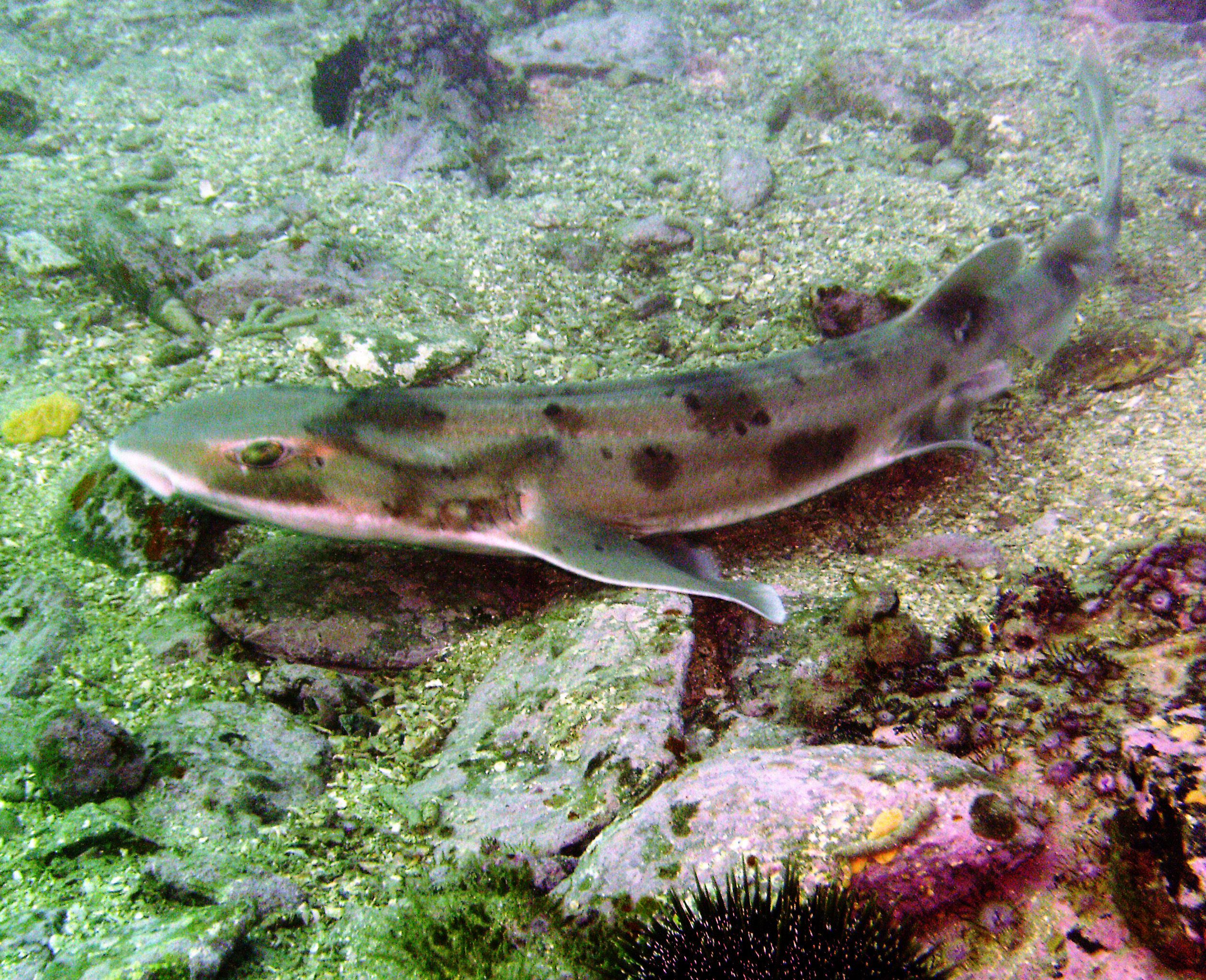 Carpet shark (Cephaloscyllium isabellum), taken at 12m depth on the east side of Long Island, Marlborough Sounds, New Zealand.